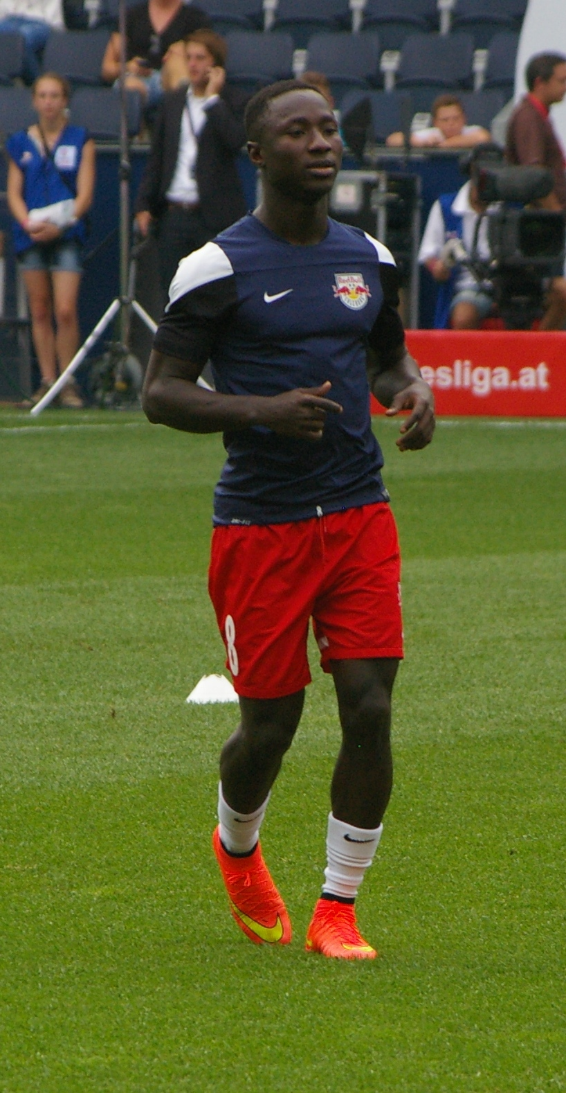 league match Austrian Bundesliga final score 8:0